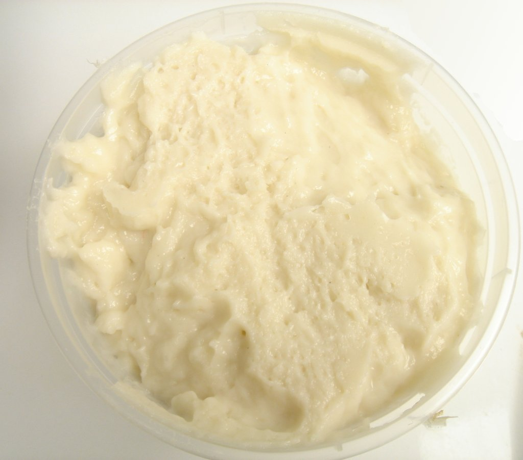 Tub of surimi